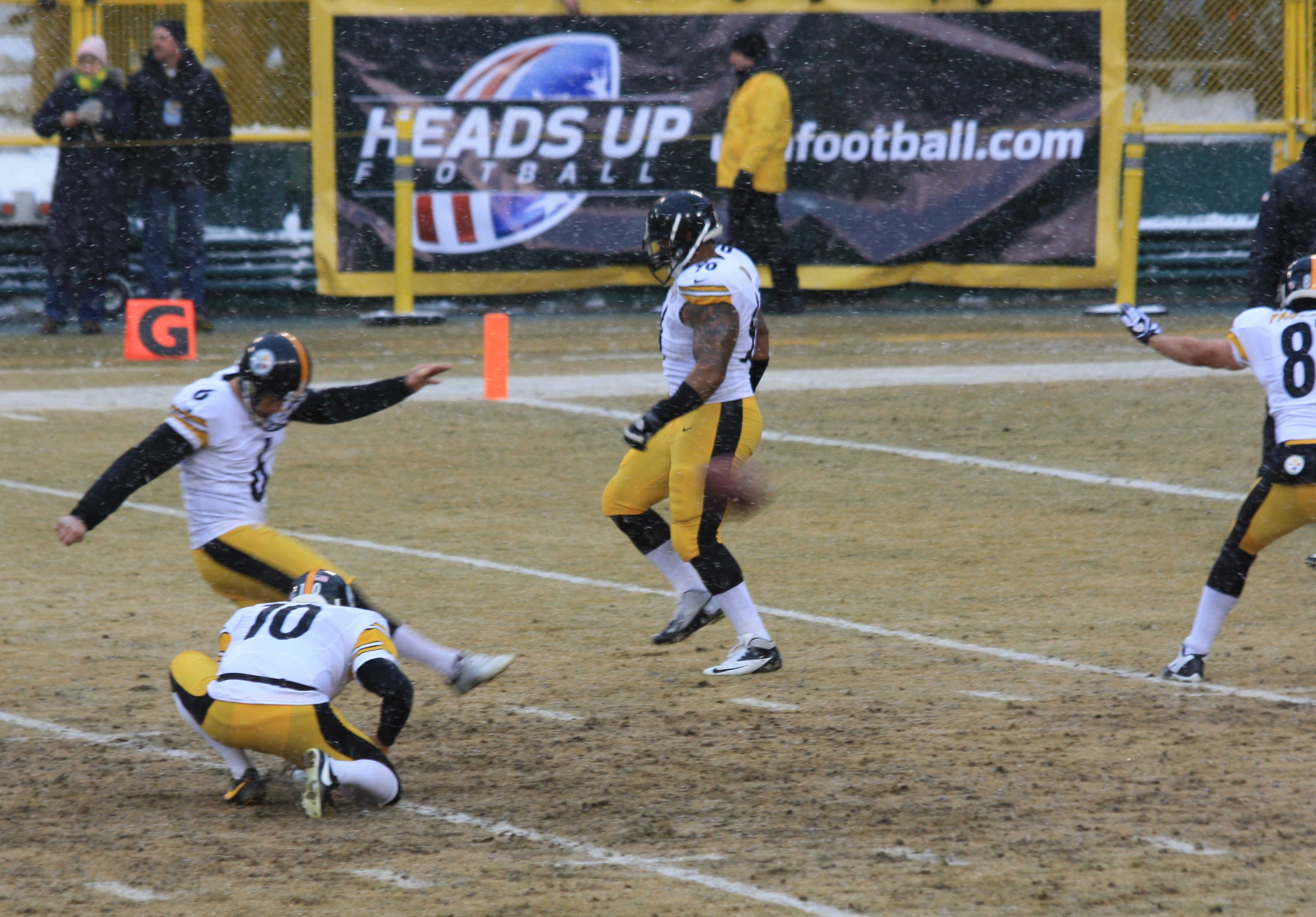 Pittsburgh Steelers players #6 Shaun Shuisham kicking and punter #10 Mat McBriar holding for a field goal practice during warmups.